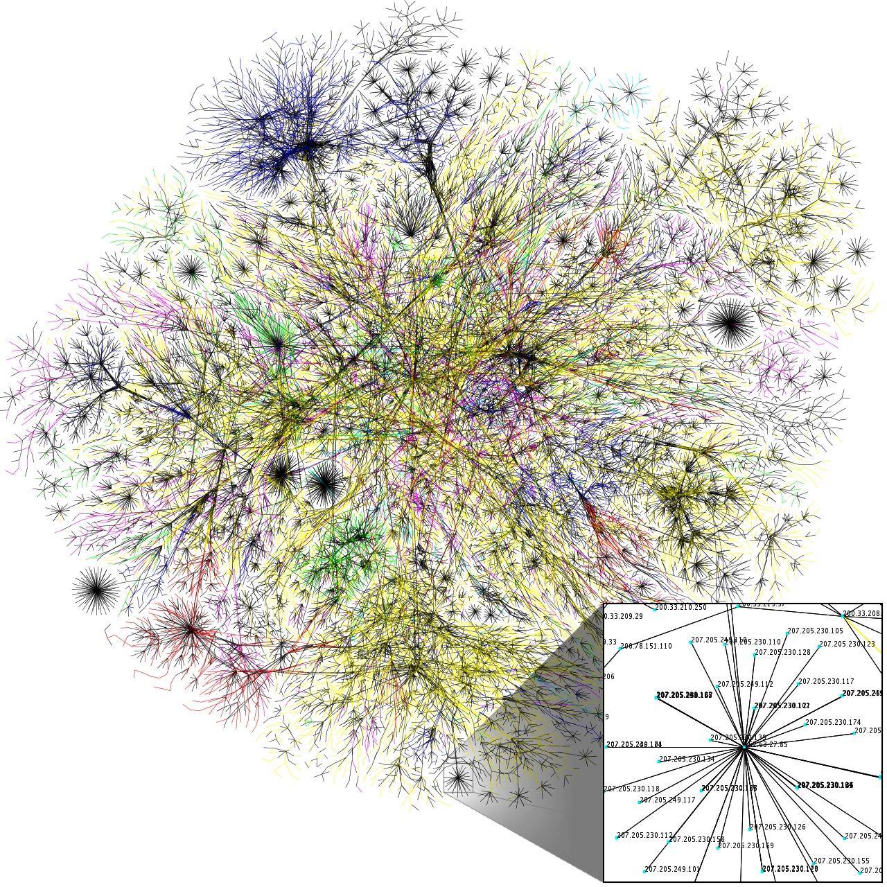 Partial map of the Internet based on the January 15, 2005 data found on . Each line is drawn between two nodes, representing two IP addresses. The length of the lines are indicative of the delay between those two nodes. This graph represents less than 30% of the Class C networks reachable by the data collection program in early 2005. Lines are color-coded according to their corresponding RFC 1918 allocation as follows: net, ca, us com, org mil, gov, edu jp, cn, tw, au, de uk, it, pl, fr br, kr, nl unknown Беларуская (тарашкевіца): Частковая мапа інтэрнэта, заснаваная на дадзеных ад 15 студзеня 2005 г. на . Кожная лінія намалявана паміж двума вузламі, злучая два IP-адрасы. Даўжыня лініі паказвае часавую затрымку (пінг) паміж двума вузламі. Мапа ўяўляе меньш за 30% сетак клясы C даступных для збора дадзеных у 2005 годзе. Колер лініі адпавядае яе месцазнаходжаньню адпаведна RFC 1918. Выкарыстоўваюцца наступныя колеры: net, ca, us com, org mil, gov, edu jp, cn, tw, au, de uk, it, pl, fr br, kr, nl невядома